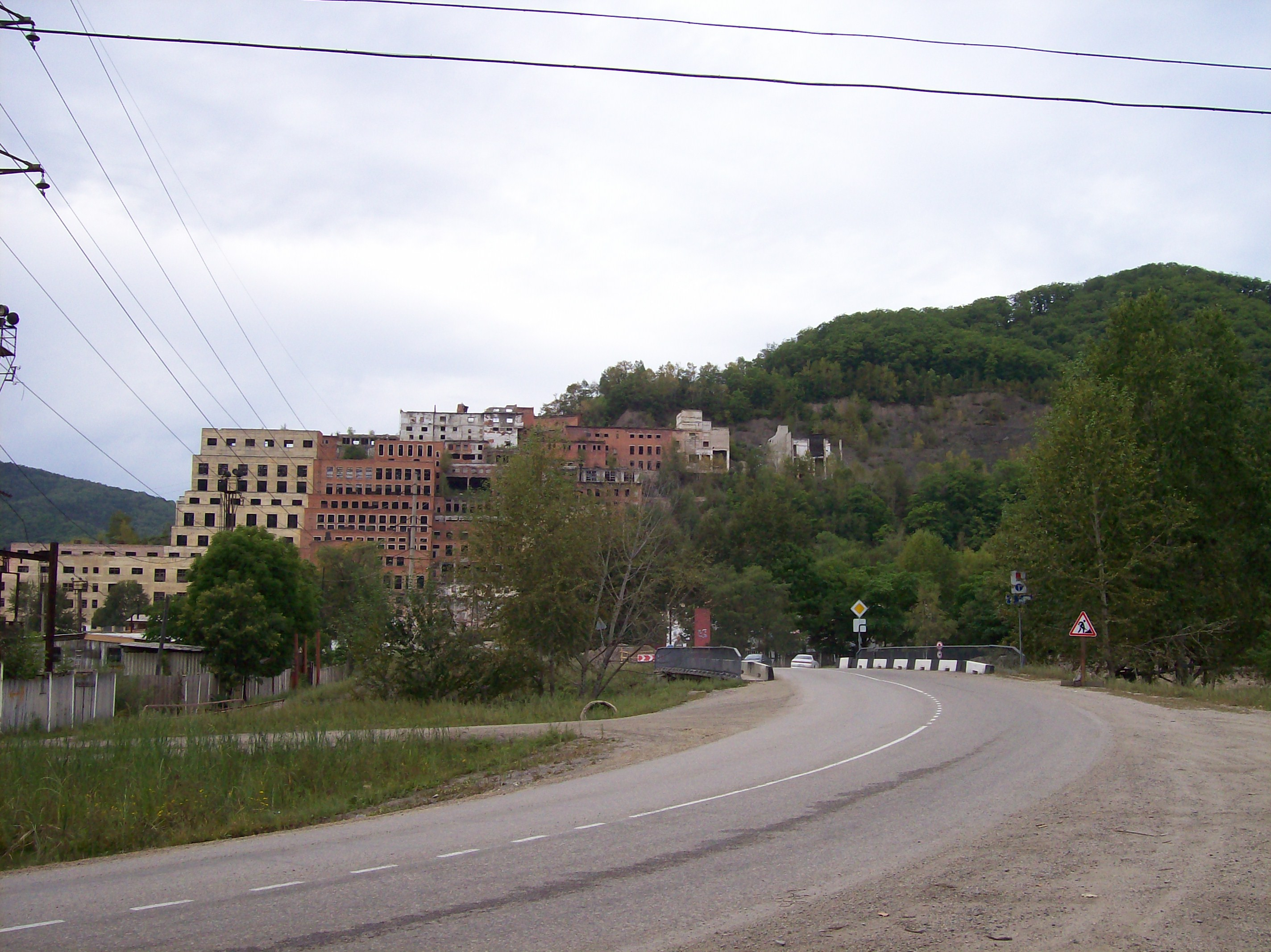 Fabrichnyi